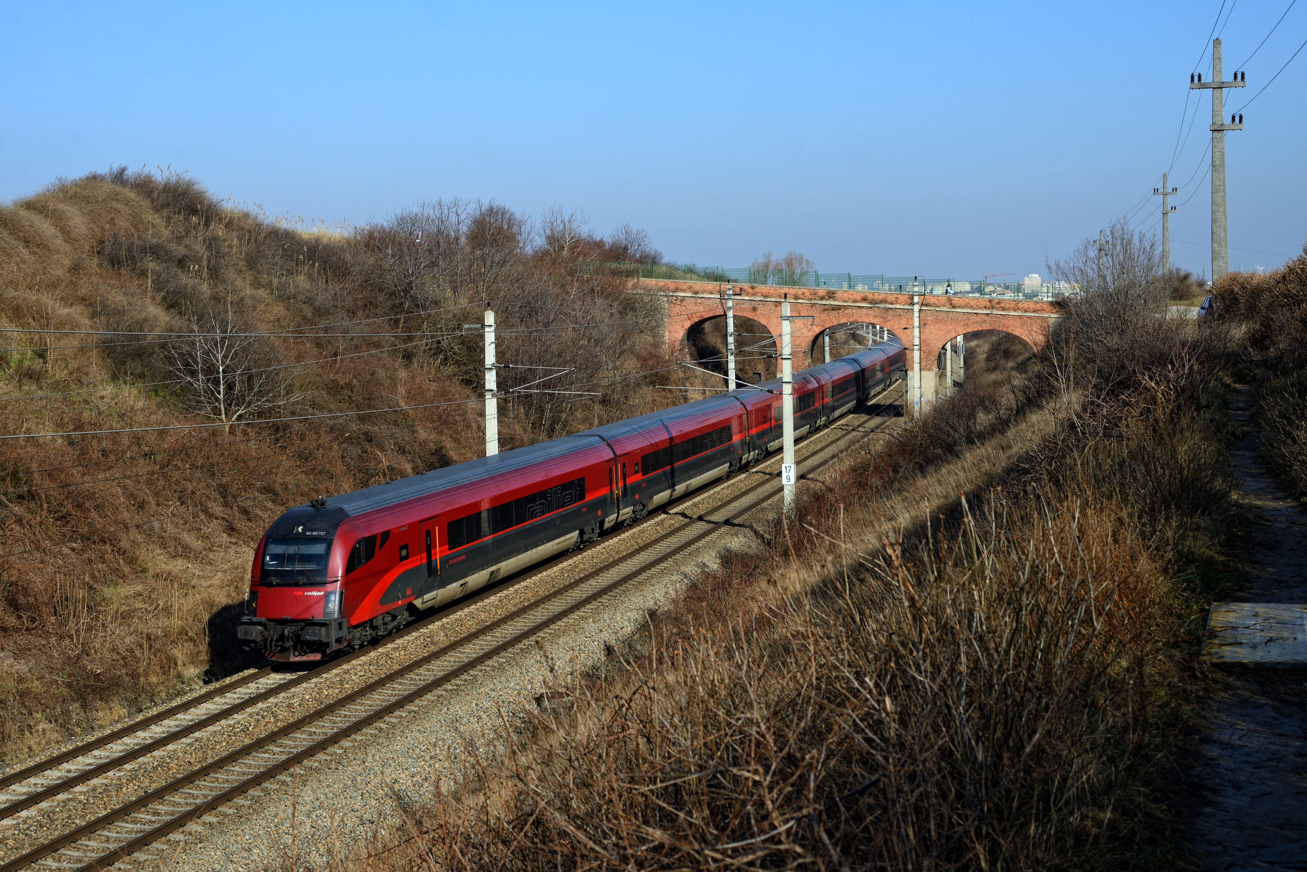 ÖBB (Austrian Railway) Railjet, with control car 80-90 727, near Guntramsdorf